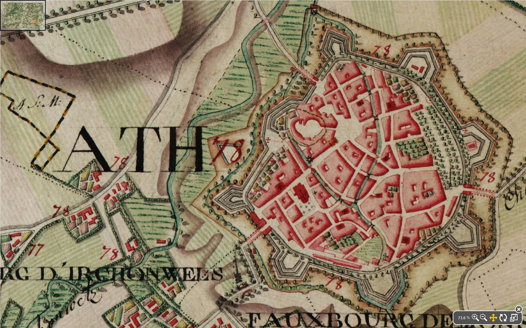 Ath,_Belgium,_Ferraris_Map,_1775.jpg